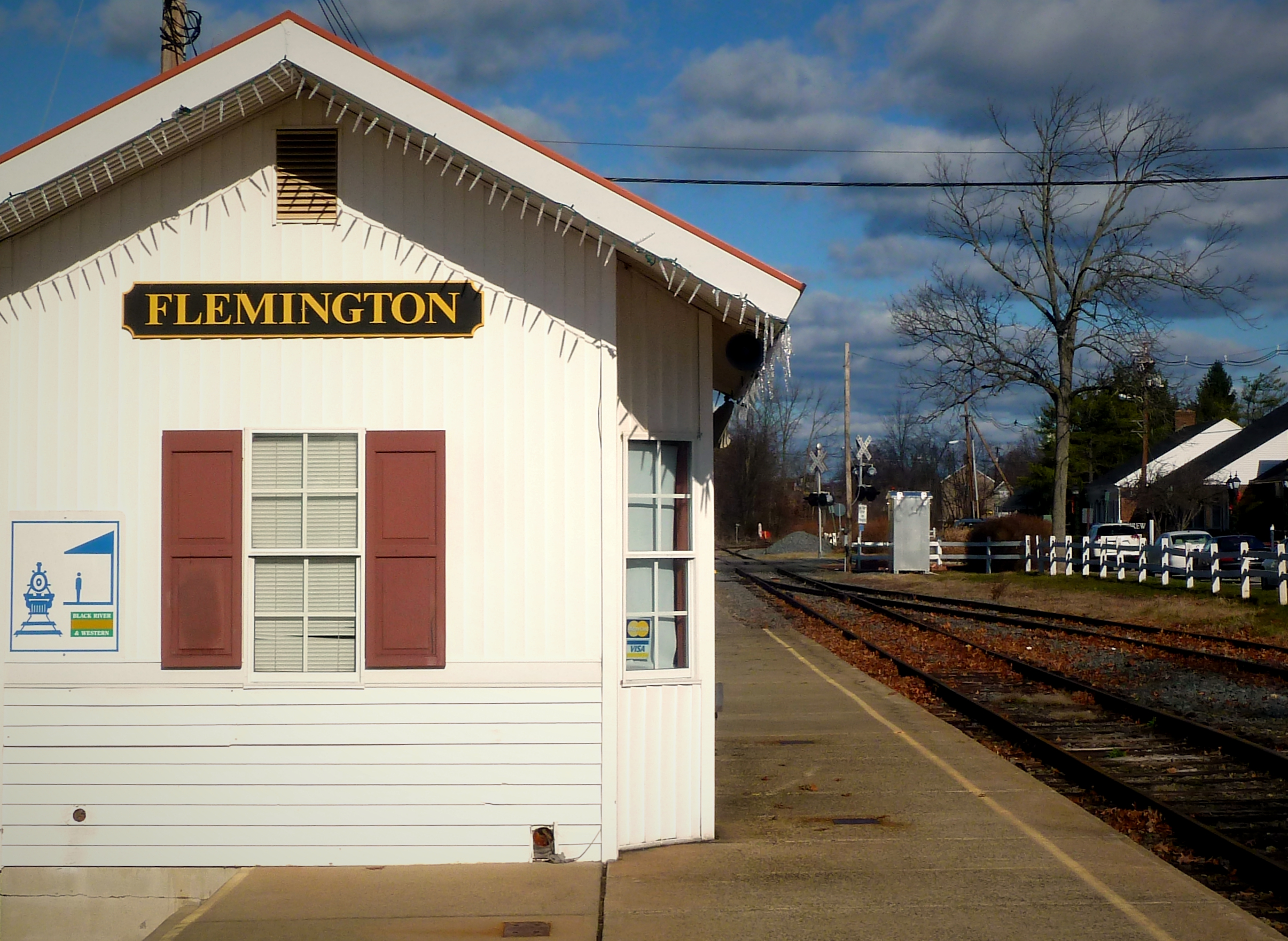 Flemington terminal of the Black River & Western RR, New Jersey